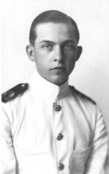 King Paul of Greece in 1920's